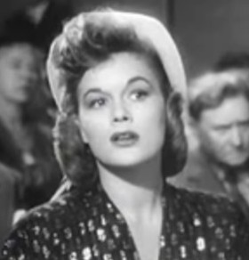 Cropped screenshot of Jean Hagen from the trailer for the film Adam's Rib. Further cropped from Image:Jean Hagen in Adams Rib trailer.jpg